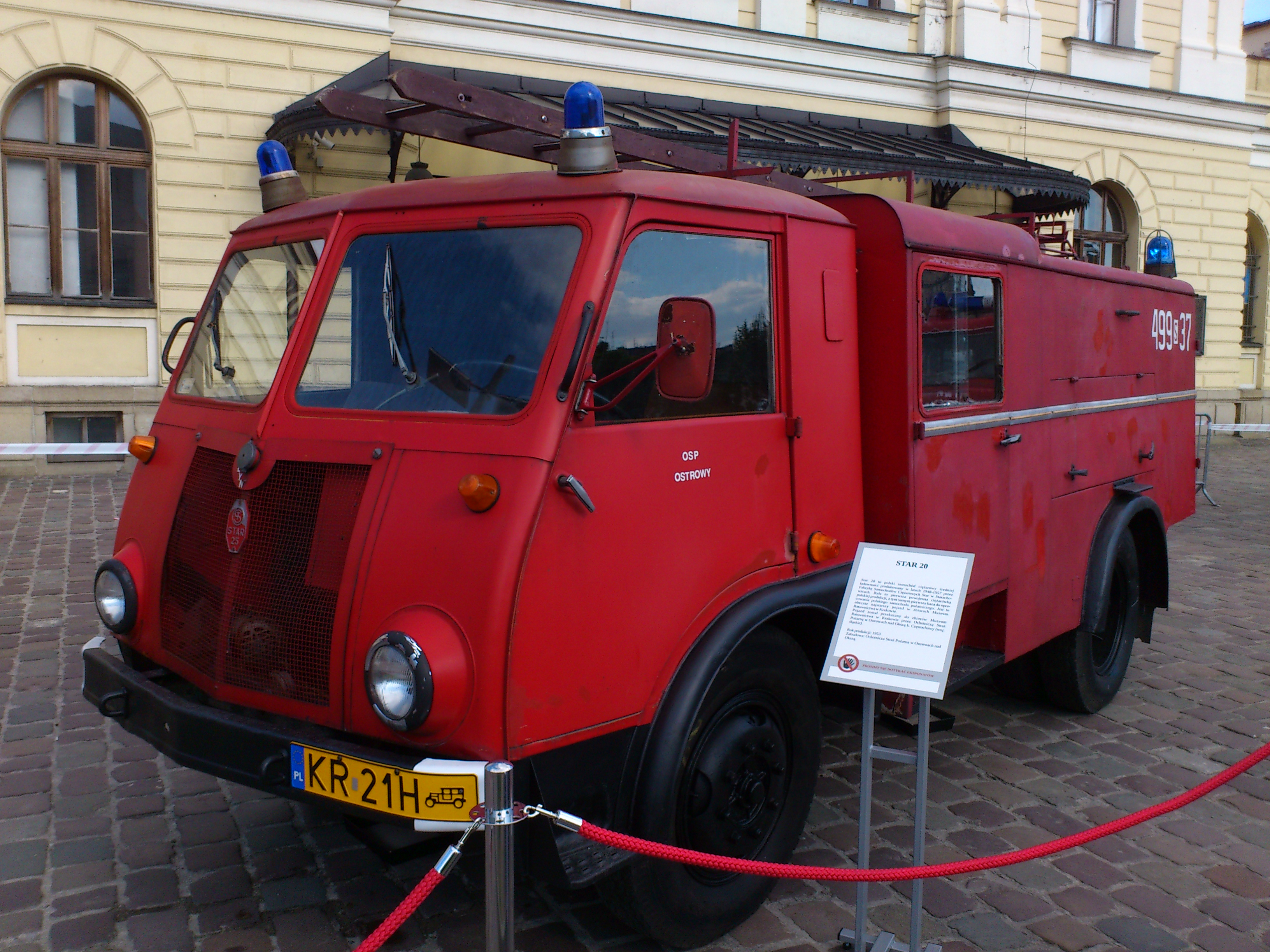 GBM Star 20 from Muzeum Ratownictwa during "Straż pożarna wczoraj i dziś" exhibition on Jeziorańskiego square in Kraków. The vehicle previously served in OSP Ostrowy. This vehicle was produced in 1953.